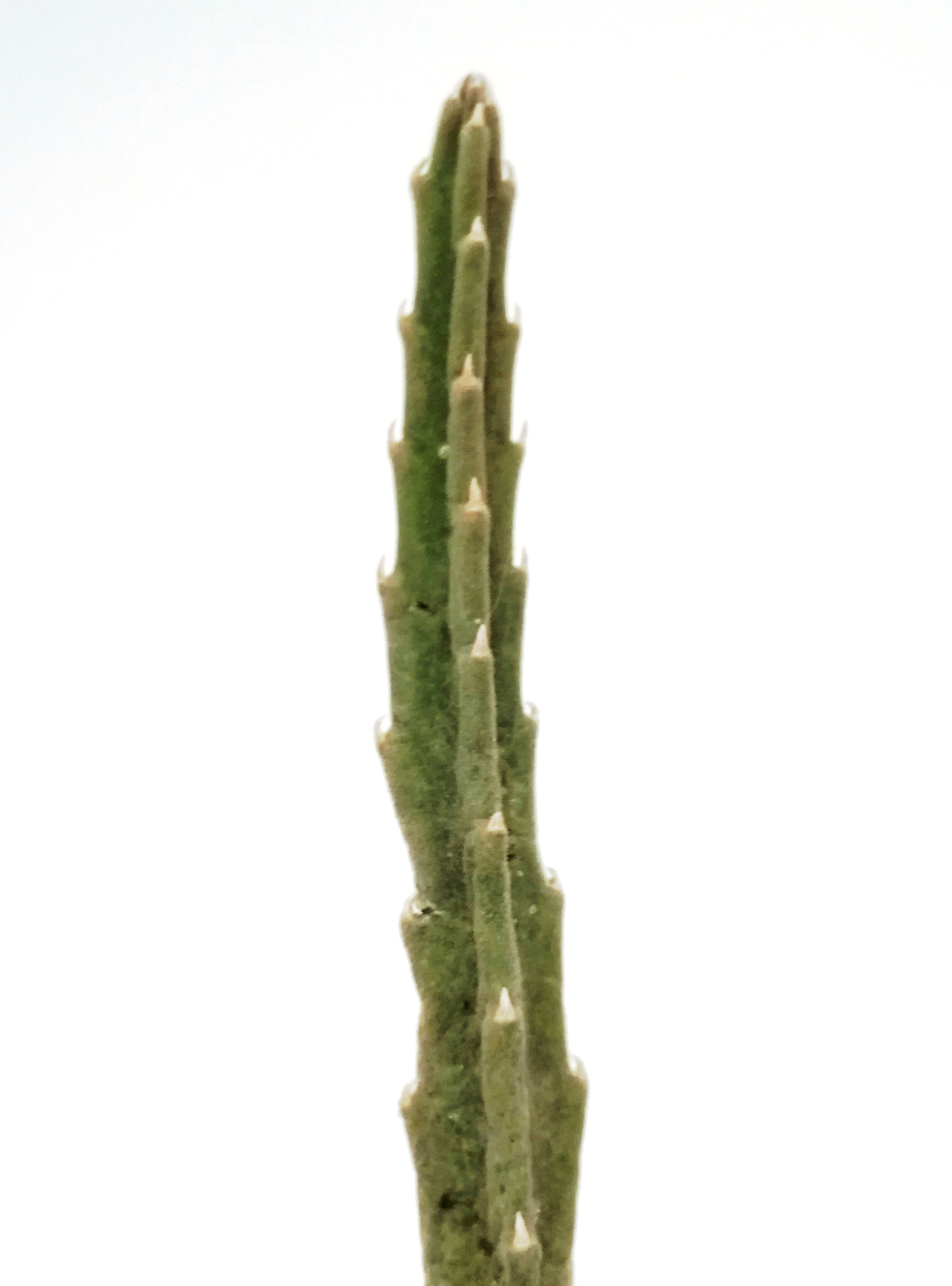 Stapelia hirsuta - grooved 4-angled stem - Barrydale